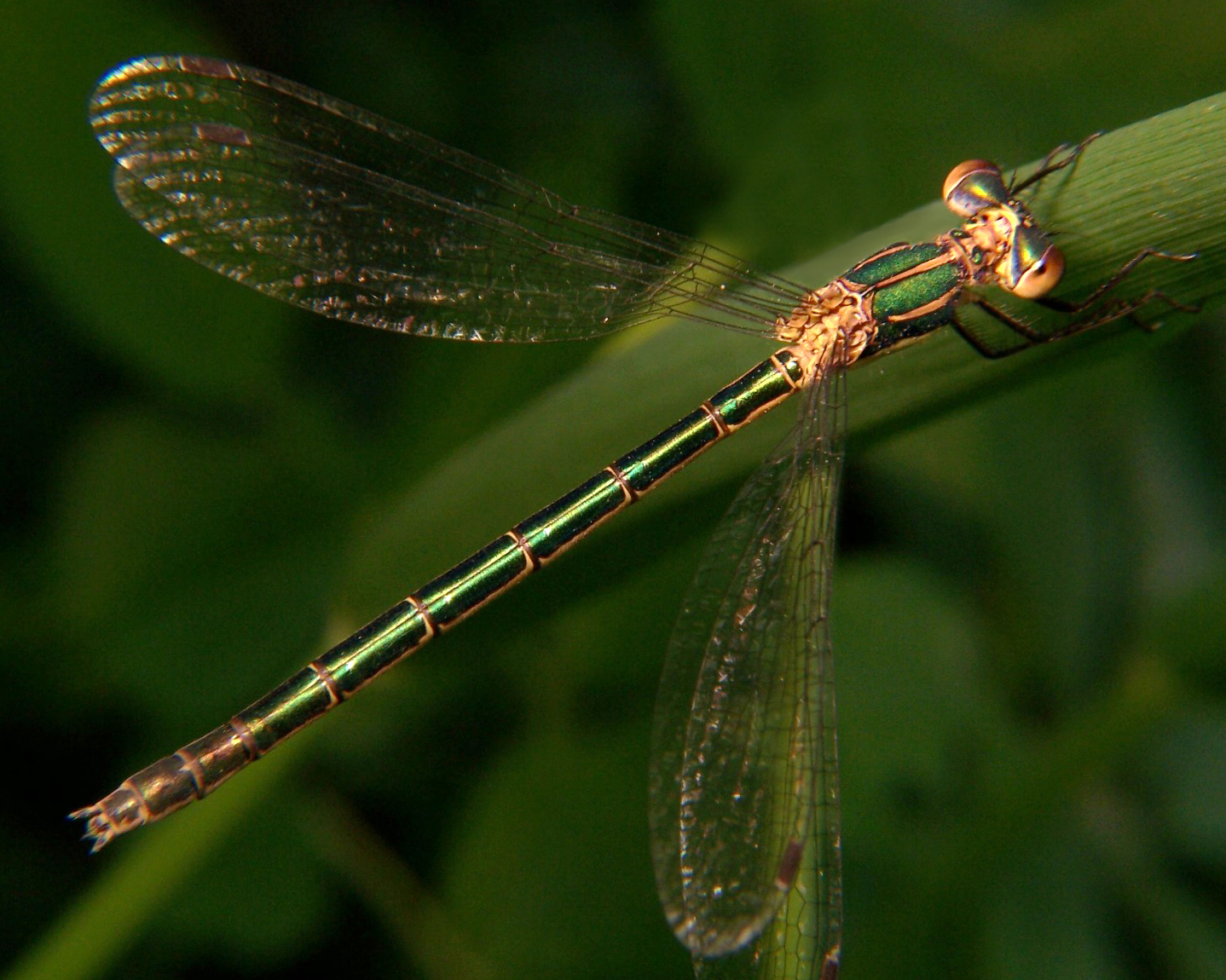 Female damselfly of Lestes dryas, commonly called "emerald spreadwing".